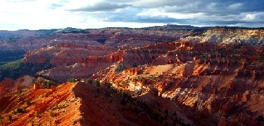 Overview at Cedar Breaks National Monument, Utah